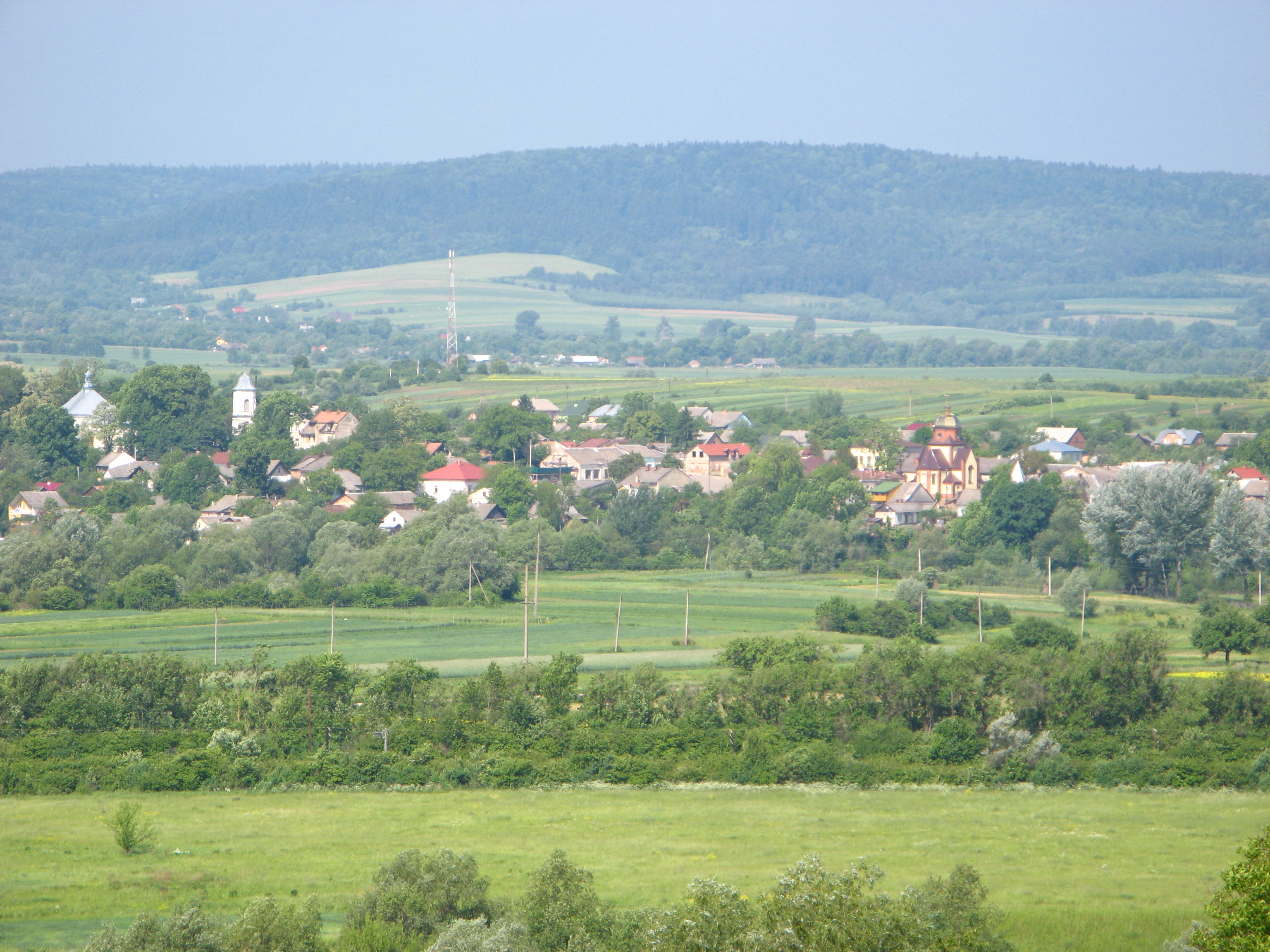 Nyzhankovychi (view of the central part of the town)